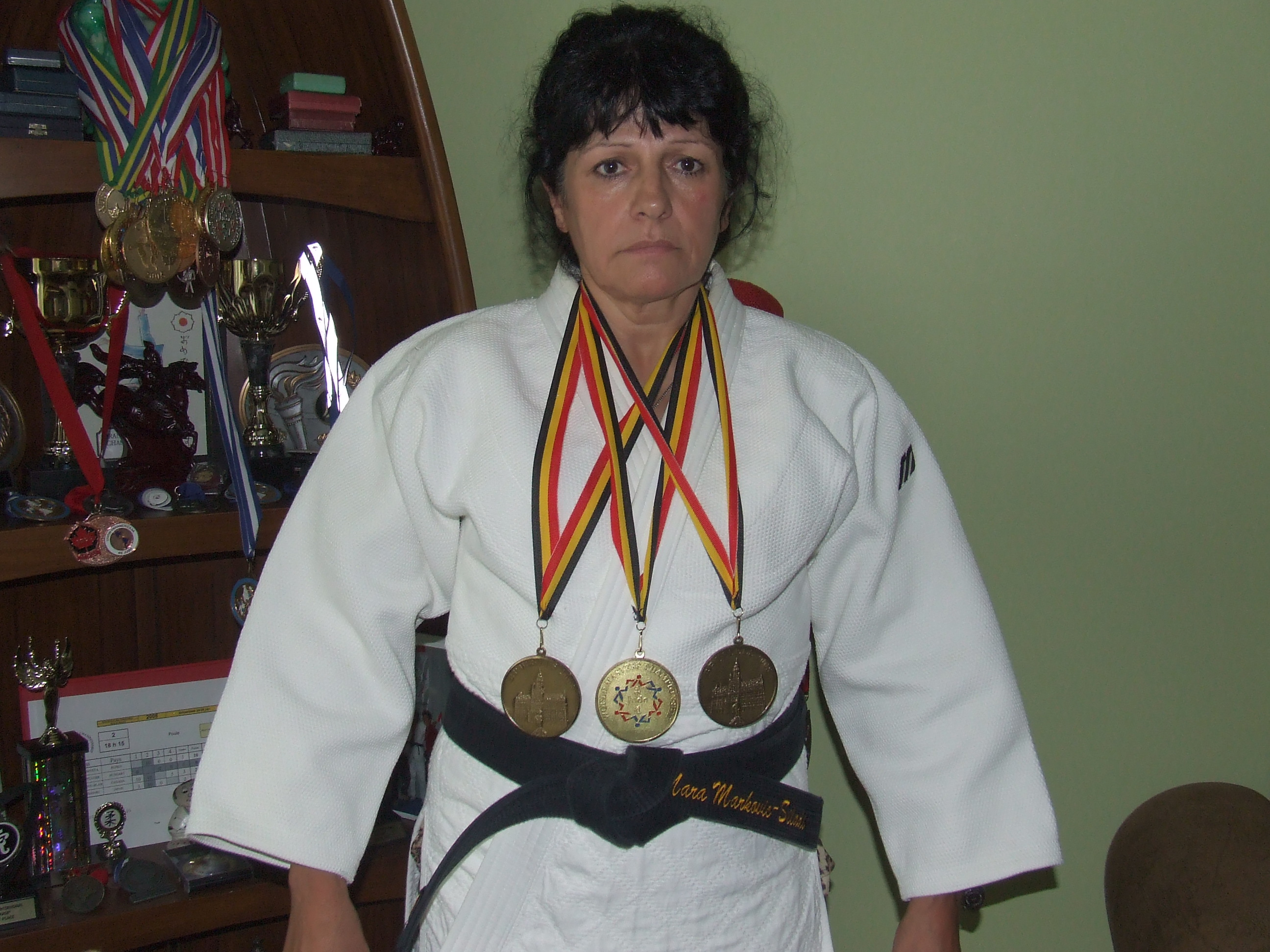 Mara Markovic Siladji with Medals from Judo World Championship in Belgium 2008